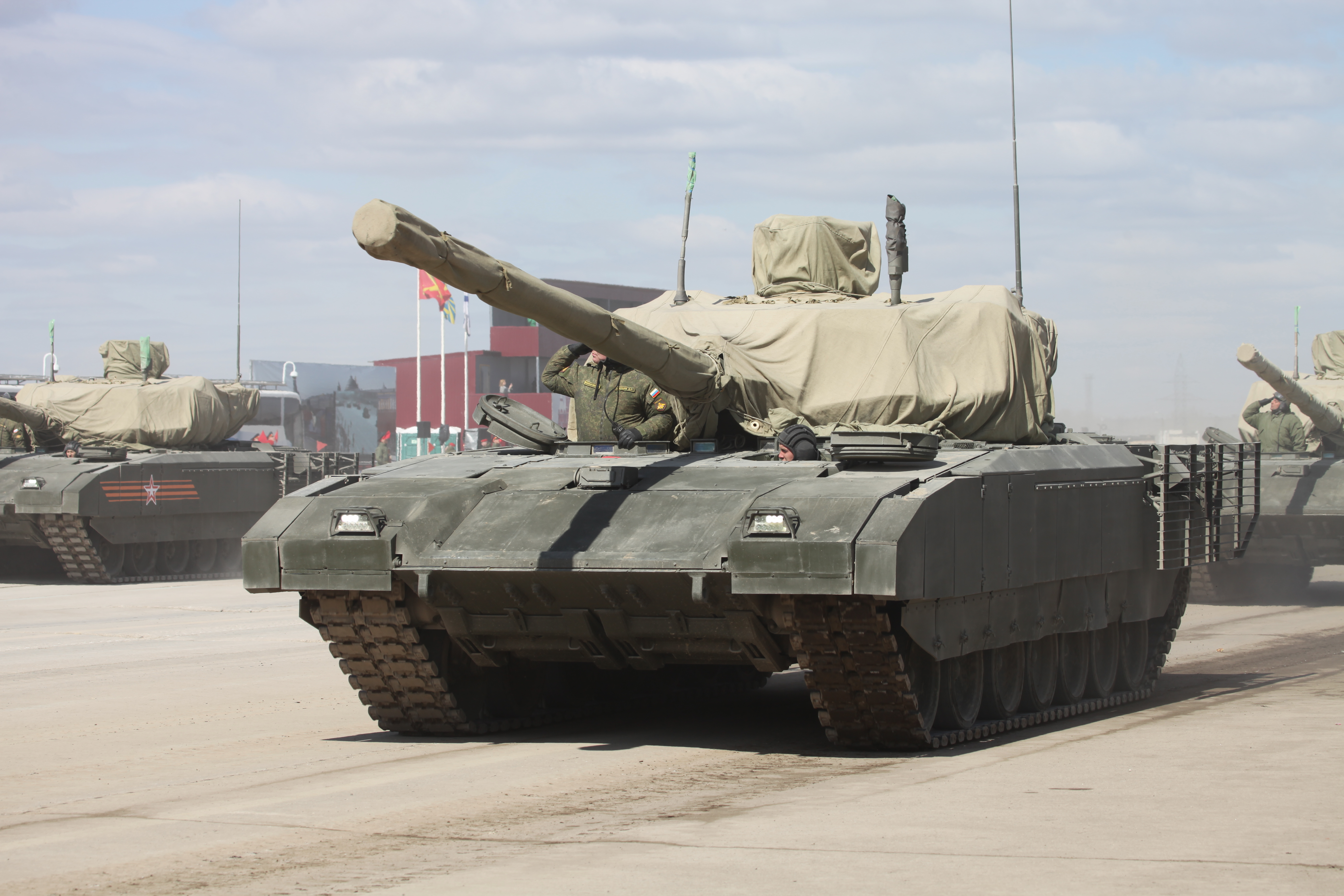 MBT T-14 based on universal tracked "Armata" chassis on repetition of Victory Day at Alabino proving grounds (during the first open rehearsal in Alabino).